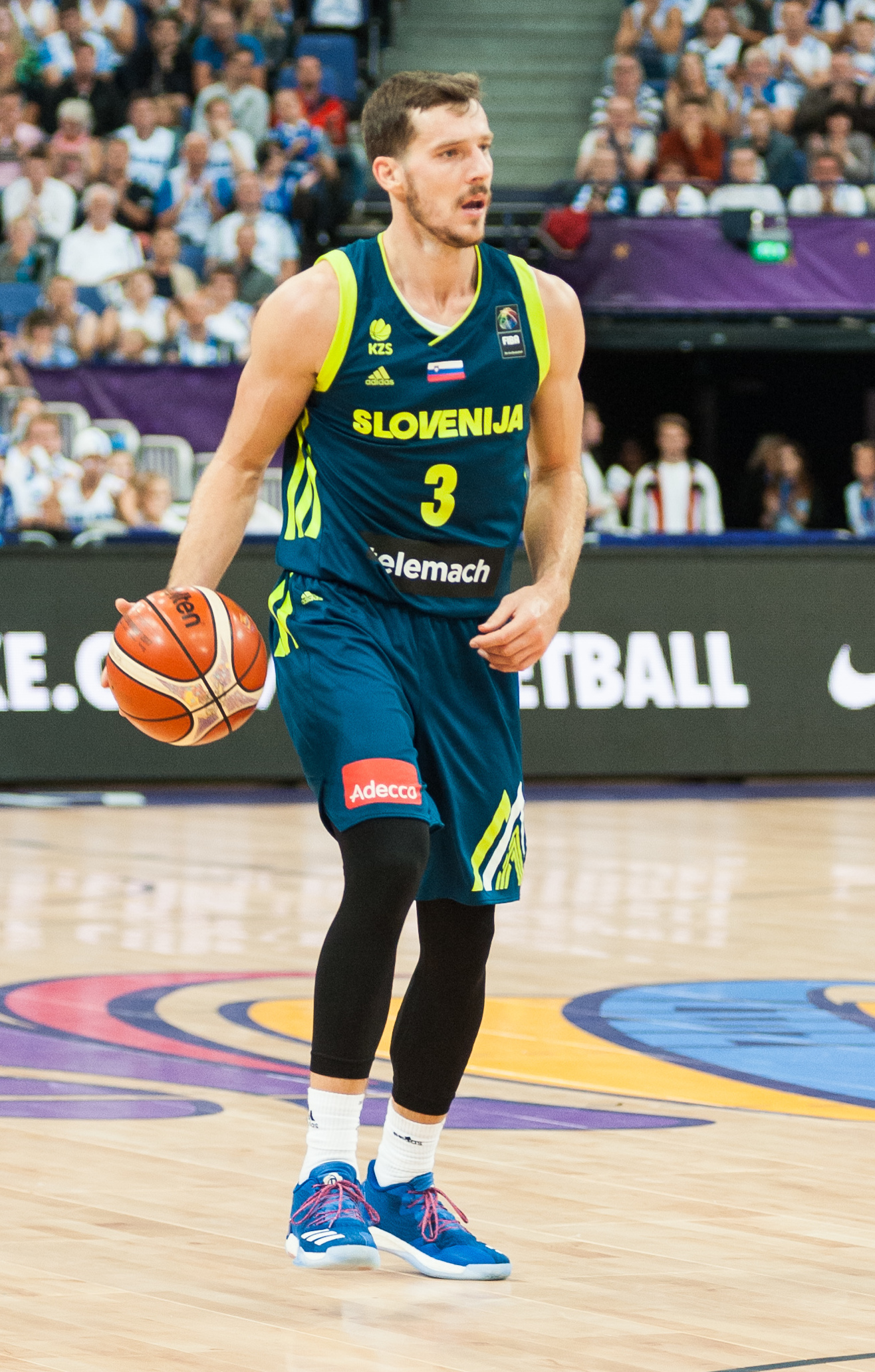 EuroBasket 2017 Group A game between Finland and Slovenia at Hartwall Arena in Helsinki, Finland.